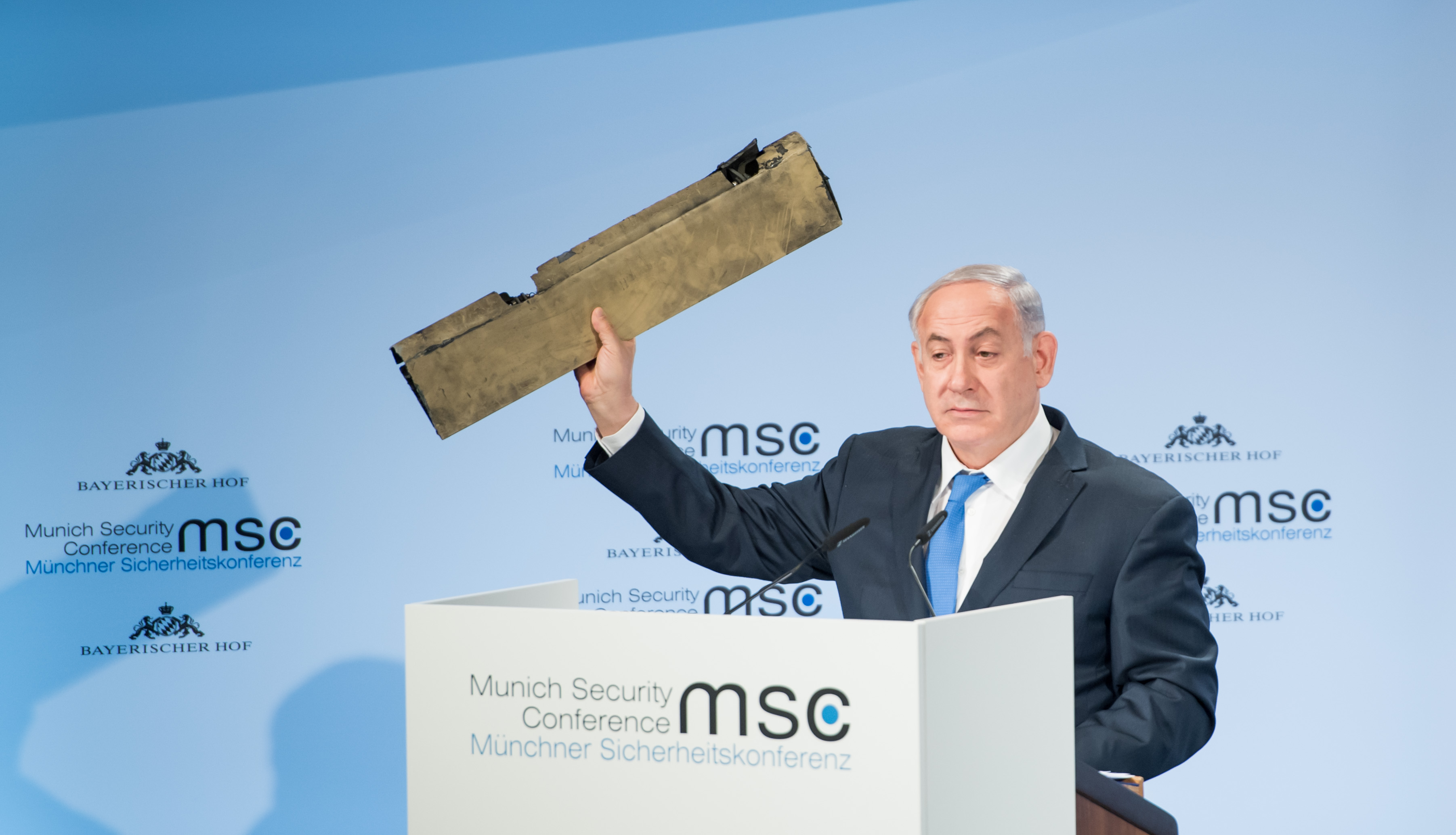 Benjamin Netanyahu